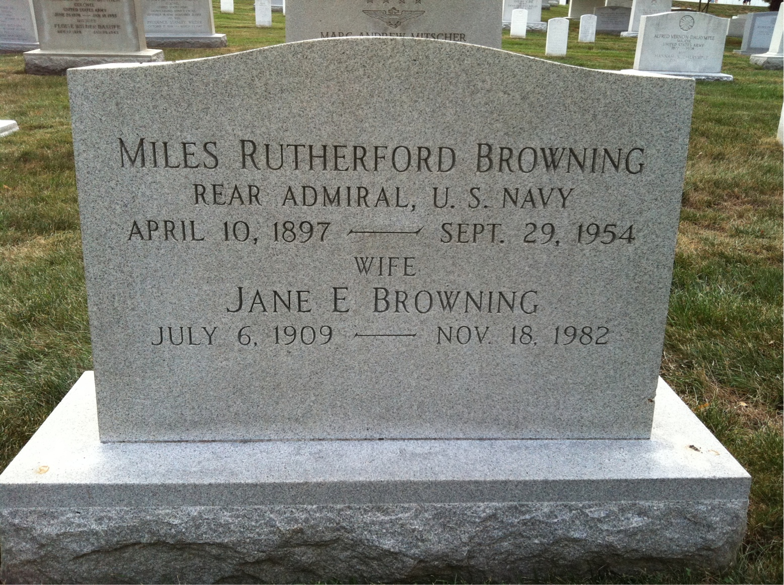 Grave of Miles Browning at Arlington National Cemetery